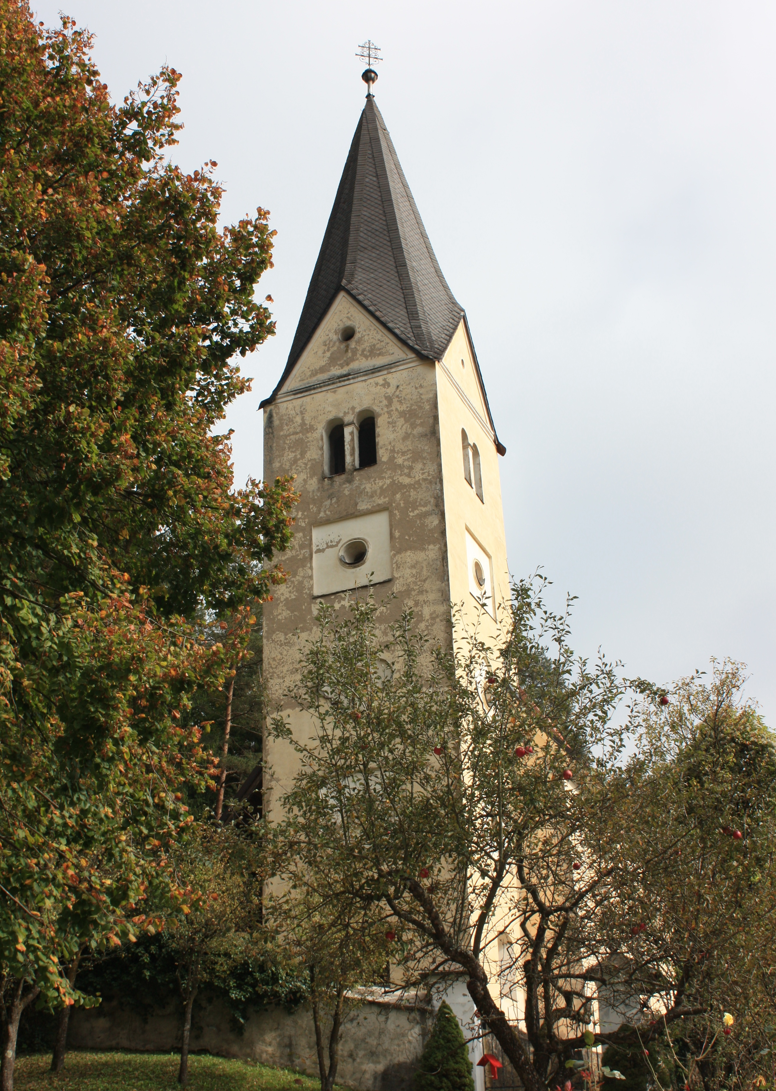 Church of St Radegund in St Nikolai in the community of Ruden